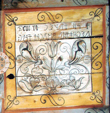 This relic of the Old Hungarian Rovás writing is located in Énlaka, Transylvania. The text reads:𐲎 𐲀𐲯 𐲐𐲤𐲦𐲉𐲙 𐲍𐲉𐲙𐲢𐲎𐲐𐲪𐲤 𐲘𐲪𐲤𐲙𐲀𐲐 𐲐𐲒𐲀𐲔𐲙"There is but one God. Georgius Musnai deacon." The inscription is located on the ceiling of the local Unitarian church. The whole ceiling was produced in 1668, so this is the date for the text as well. Notably not the oldest inscription, but artistic. There is also a Latin fragment: "Deut:vi".